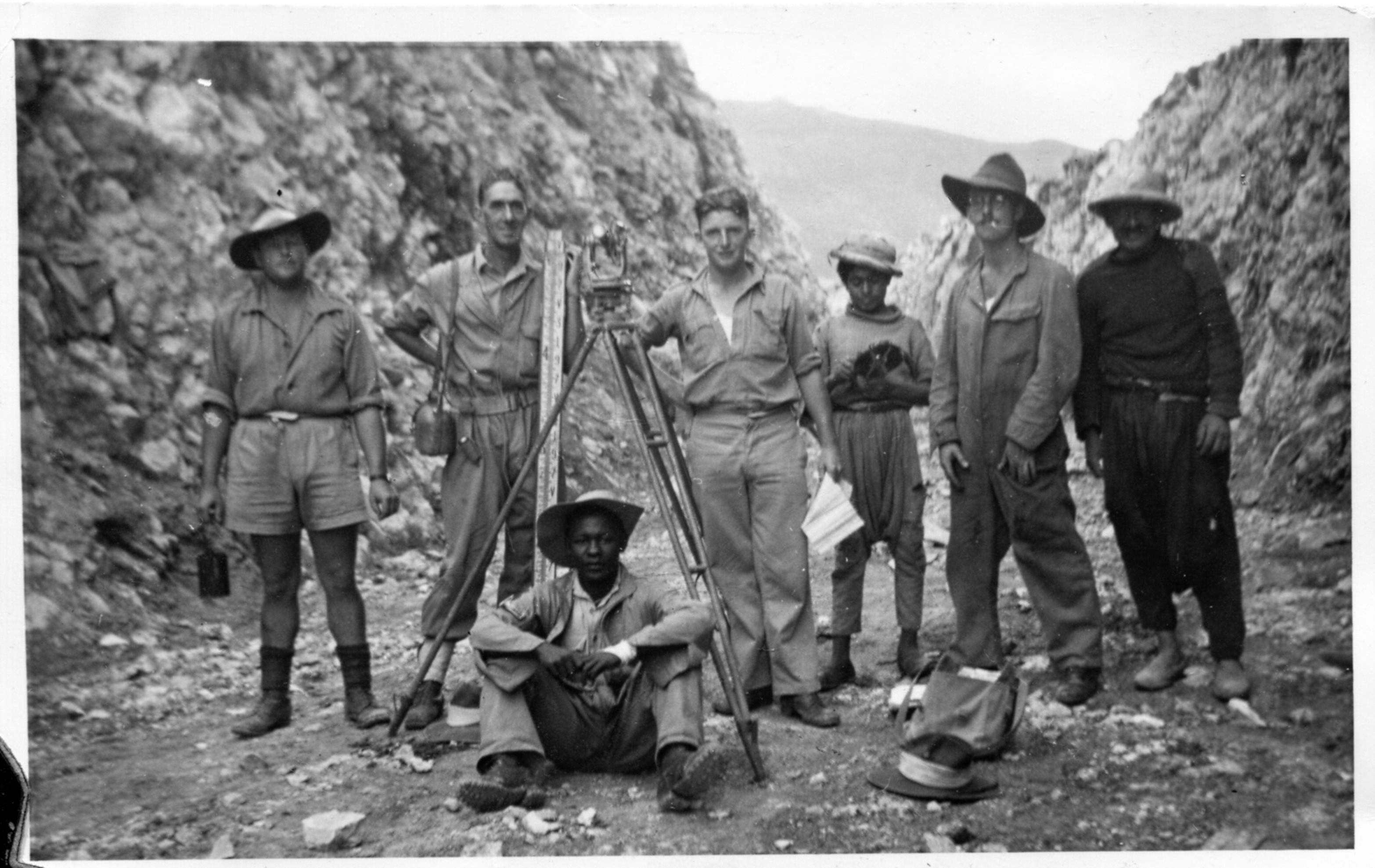 At Maalmeltein work on the railway cutting took six months. Some 35,000 cubic yards of limestone rock had to be removed. See Barton Maughan (1966) "Tobruk and El Alamein. Australia in the War of 1939-45." P.823-9. Australian War Memorial, Canberra.